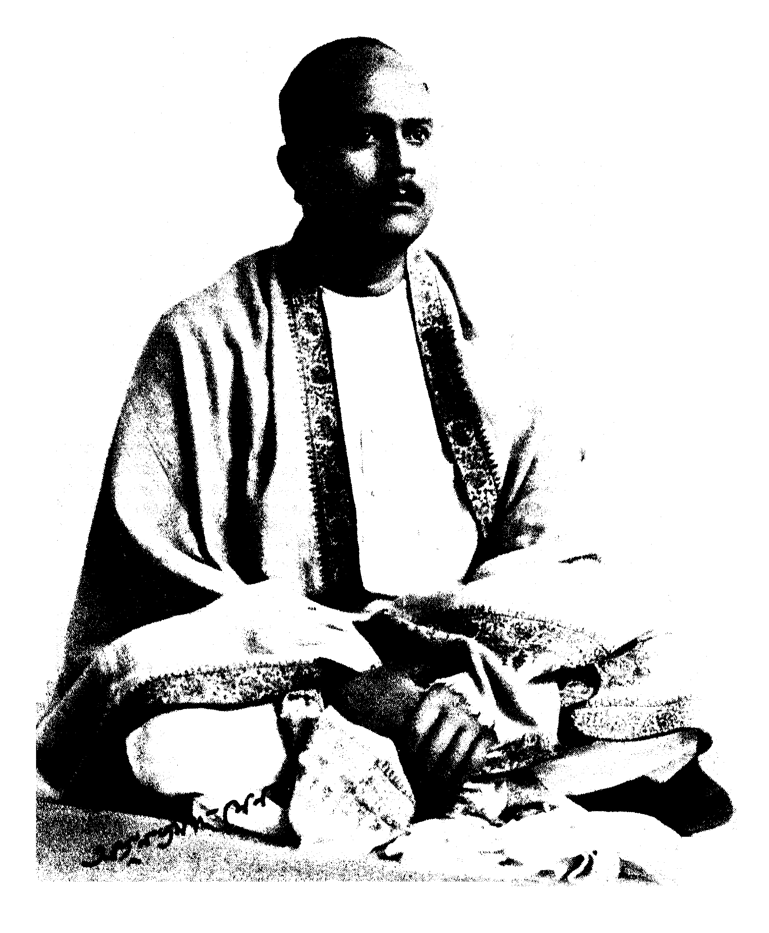 A signed photograph of Atul Prasad Sen